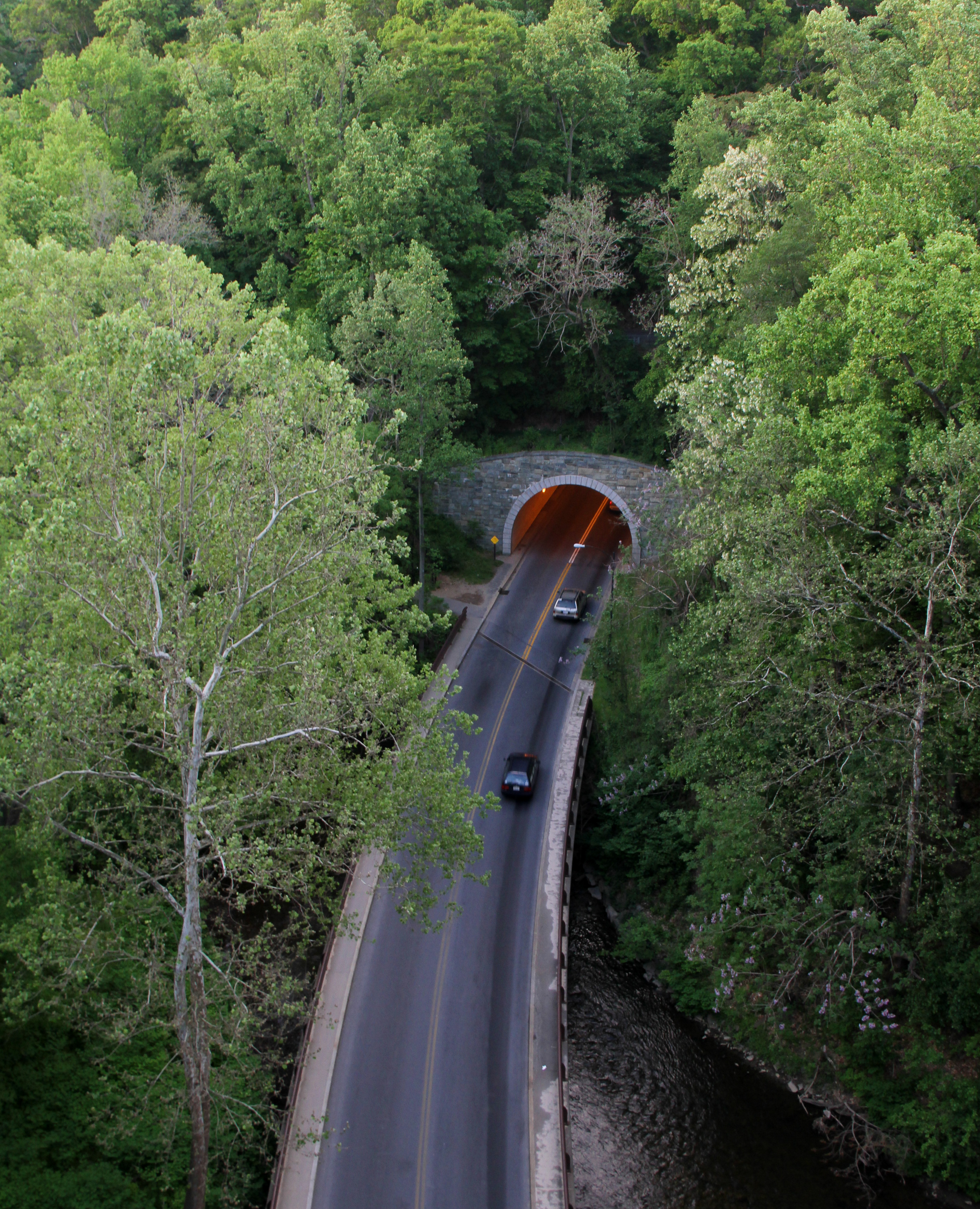 Beach Drive in Rock Creek Park, Washington, D.C., as seen from the Duke Ellington Bridge.